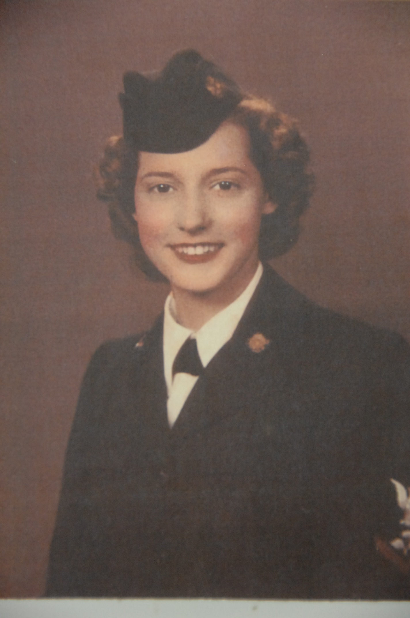 PO3 Dolores Denfeld